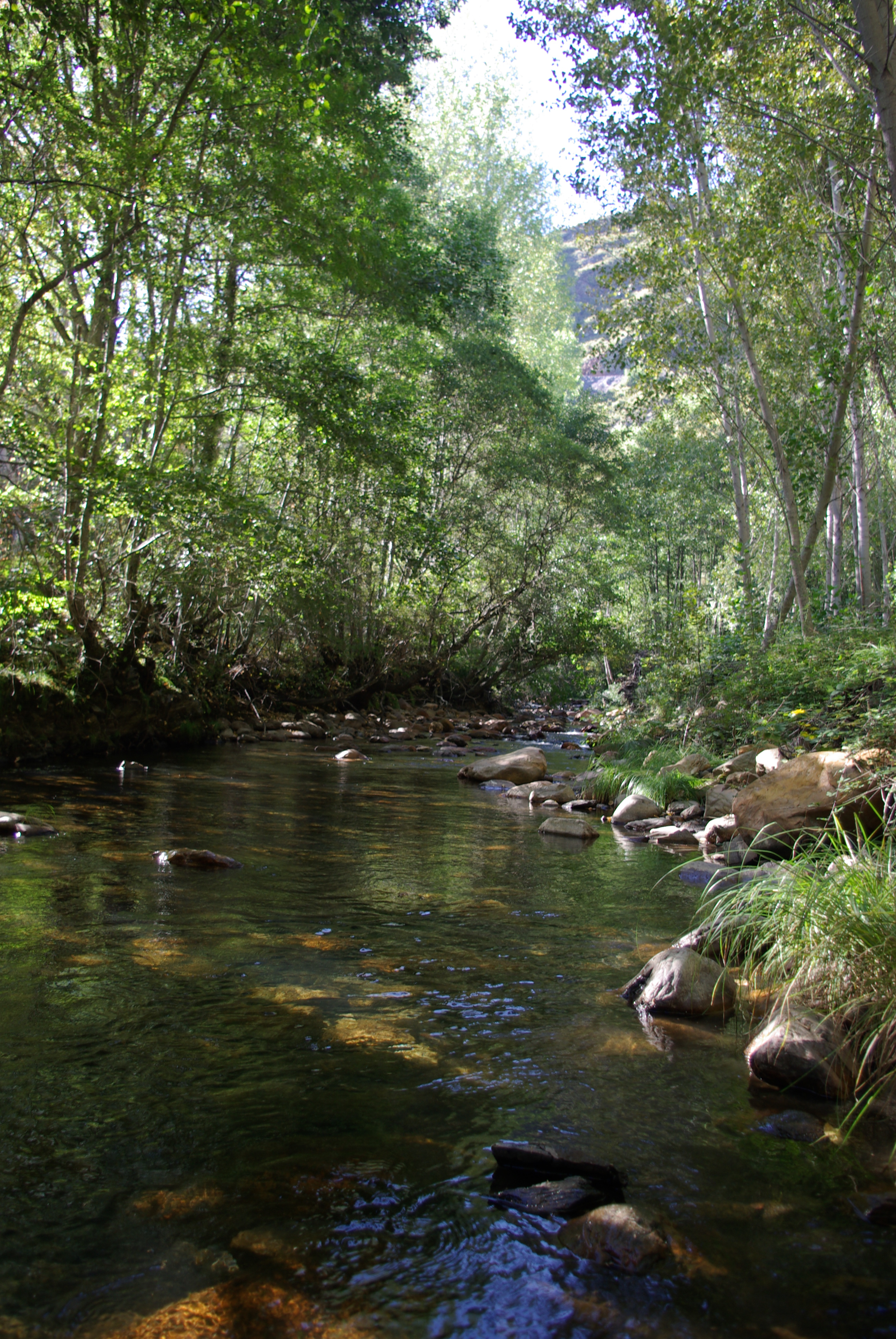 River Selmo, Sil basin. Near to Quintela, León (Spain)